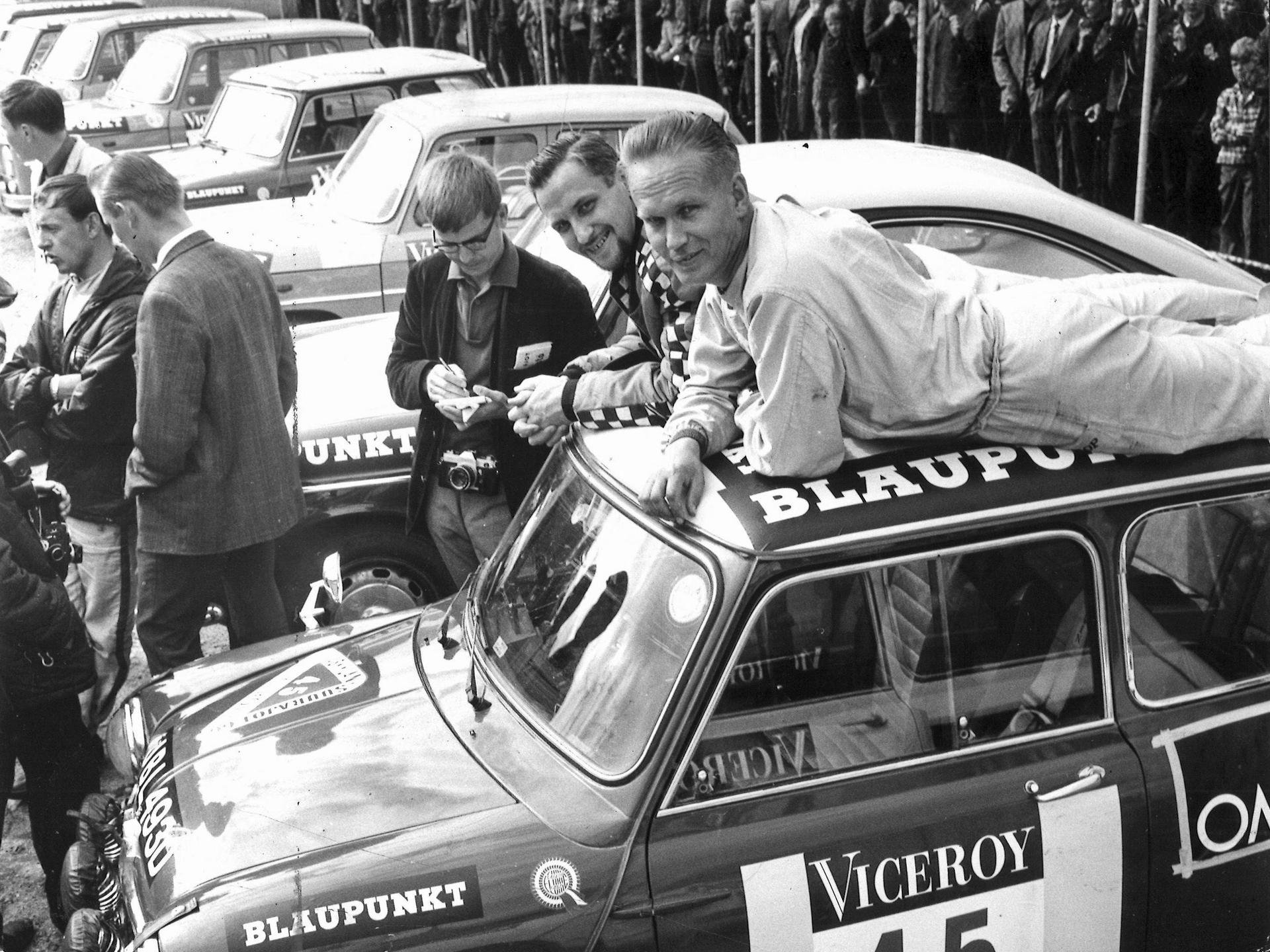 Photograph of the Finnish rally drivers Timo Mäkinen and Pekka Keskitalo after their victory at Suurajot.